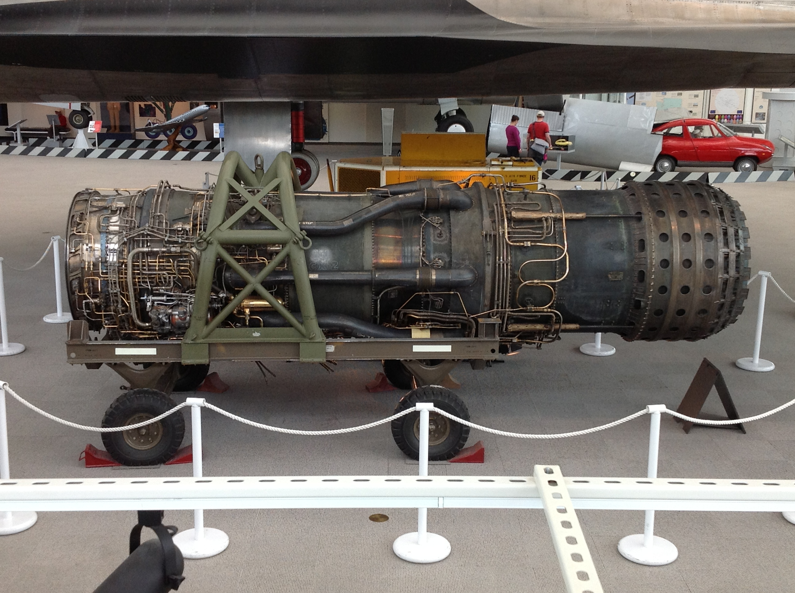 J58 engine for the Lockheed SR-71 Blackbird, seen at Museum of Flight, Seattle